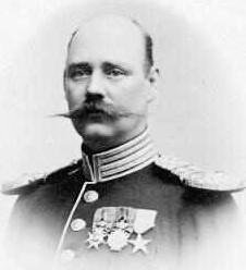 Swedish officer who served in the armed forces of the Congo Free State Wester, Arvid Mauritz F. 1856. D. 1914. Major. I Kongostatens tjänst 1883-86 Närkes regemente. Livregementet till fot. Livregementets grenadjärer. Gotlands infanteriregemente source